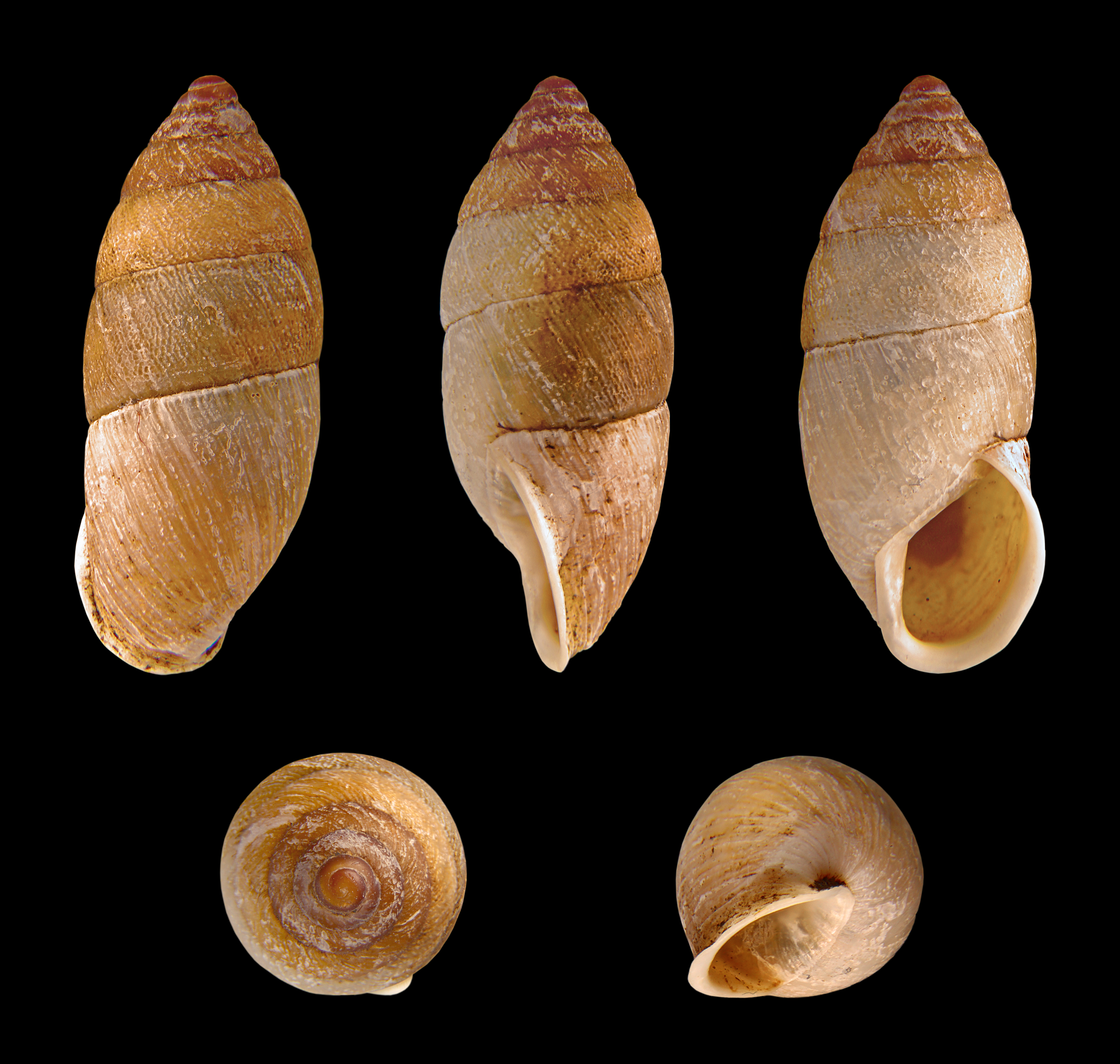 Length 1.7 cm; Originating from Los Berrazales, south-east of Agaete, Gran Canaria, Spain; Shell of own collection, therefore not geocoded.